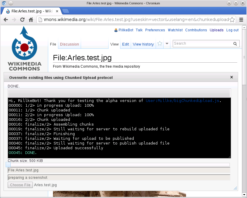 Chromium 27.0.1425.0 running on OpenSUSE